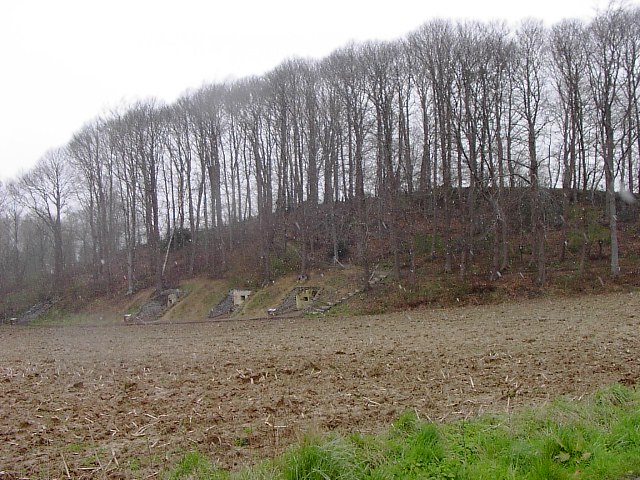 The Lettenberg in Belgium